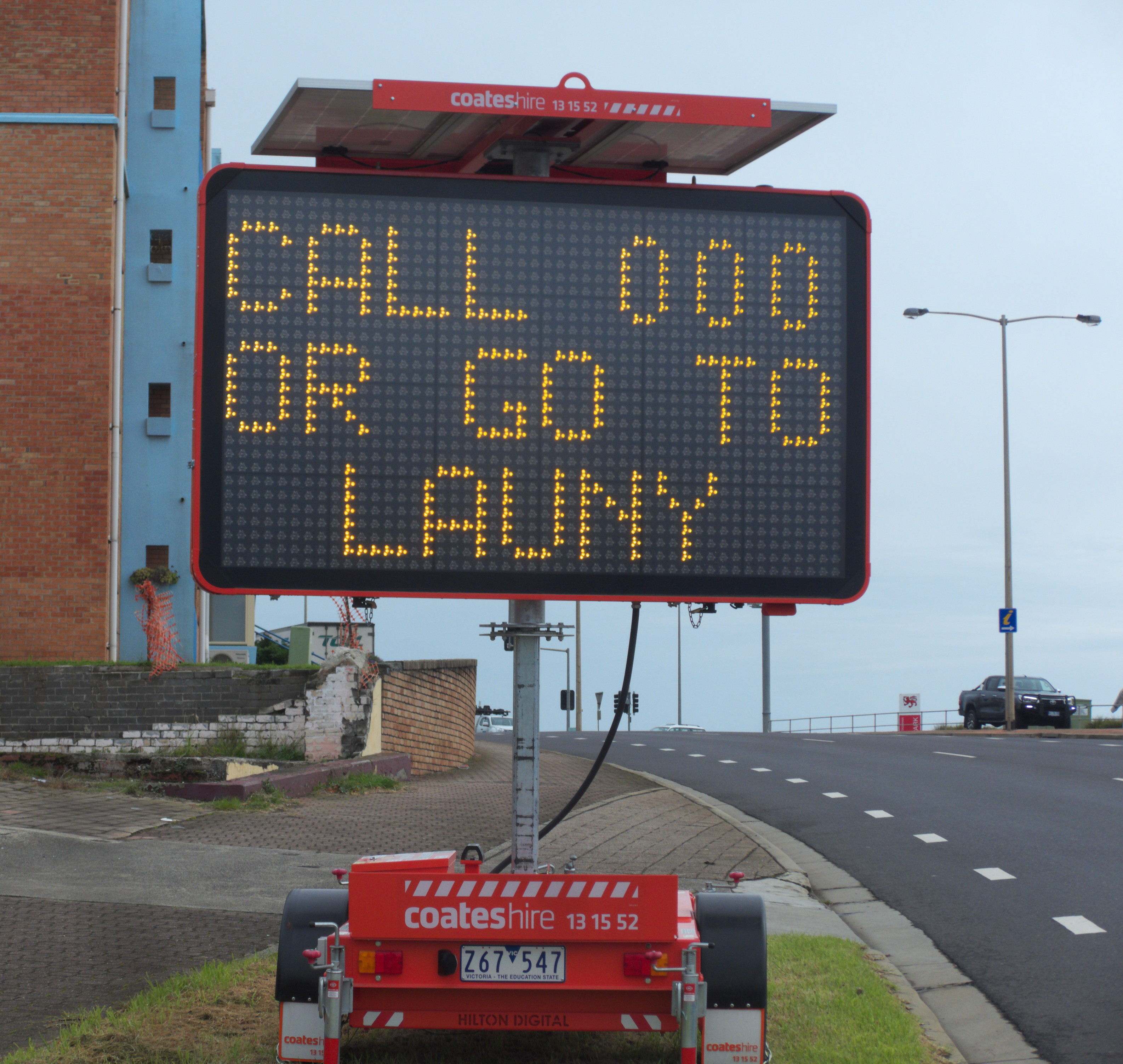 Electronic sign on the Bass Highway in Burnie with advice while the North West hospitals are closed due to the Covid-19 outbreak. "Call 000 or go to Launy" (Launceston).